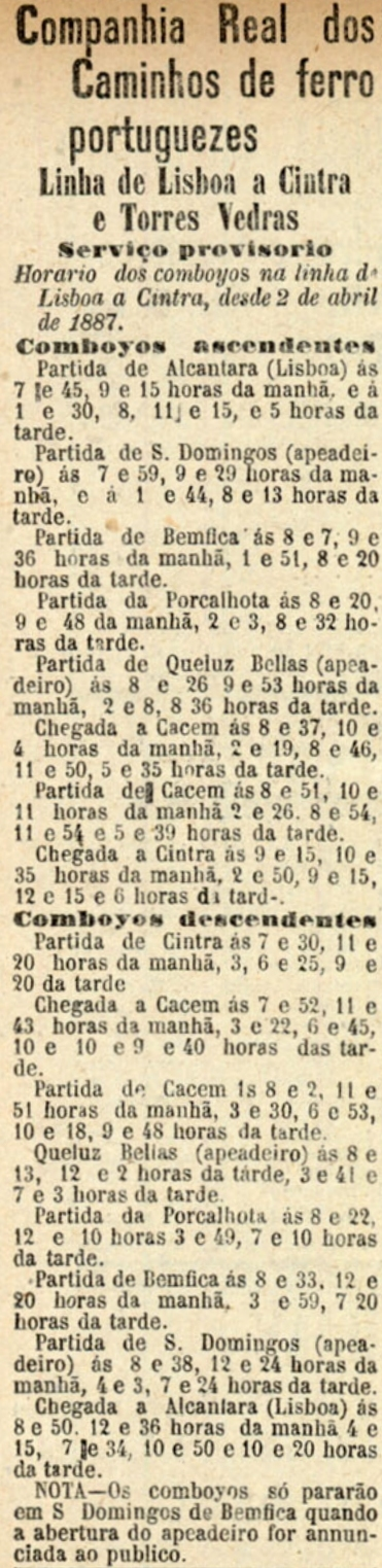 Public announcement of the Companhia Real dos Caminhos de Ferro Portugueses (Royal Company of the Portuguese Railways), with the provisory timetables for the railways from Alcântara Terra to Sintra and Torres Vedras, opened on 2nd April 1887. This image was published on the Diario Illustrado newspaper No. 5020, of 5th April 1887, and scanned by the Biblioteca Nacional de Portugal.